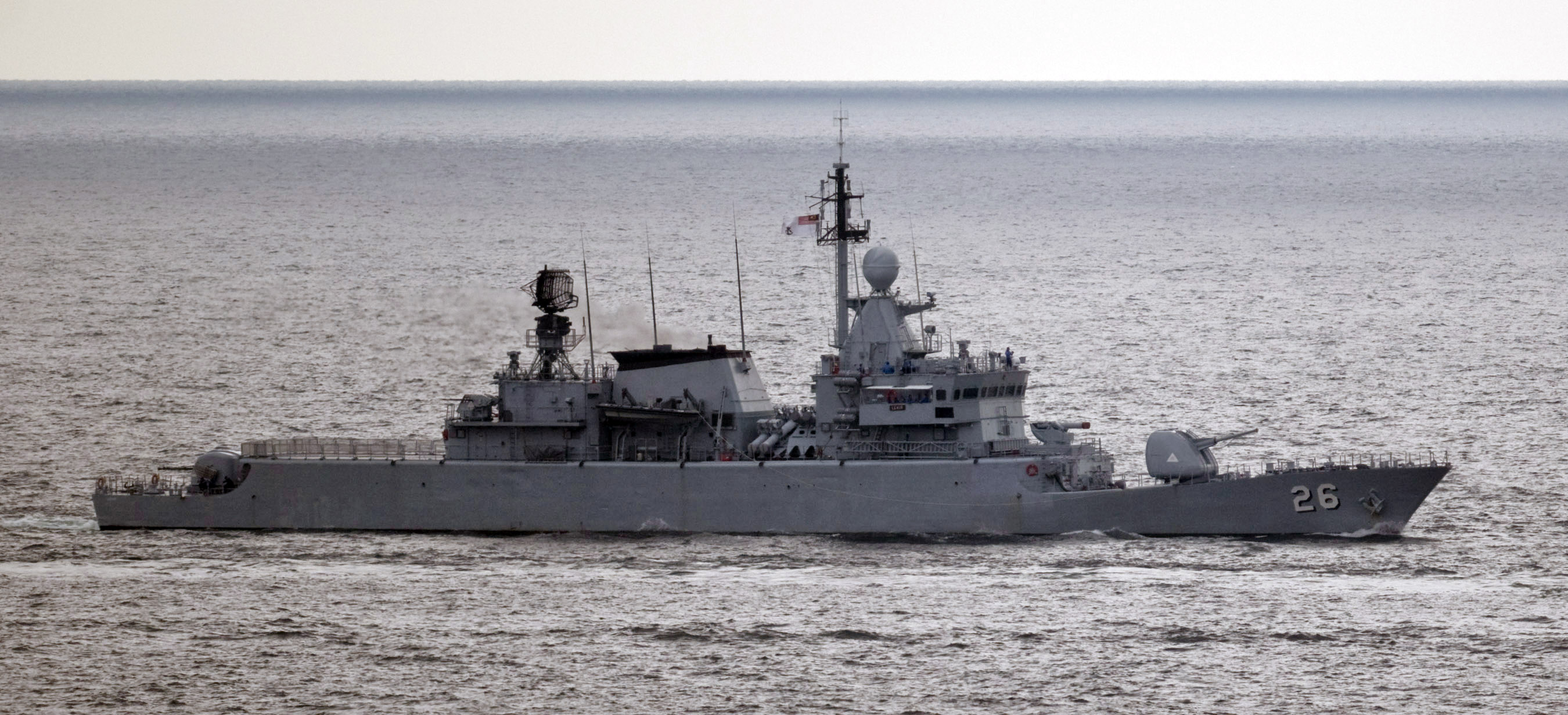 STRAIT OF MALACCA (Jan. 26, 2011) The Royal Malaysian Navy frigate KD Lekir (26) is underway in the Strait of Malacca. (U.S. Navy photo by Mass Communication Specialist Seaman Nicolas Lopez/Released)